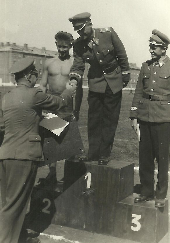 Przasnysz, zawody sportowe w 64 LPS mjr Władysław Wojtaszewski wręcza dyplomy, 1958